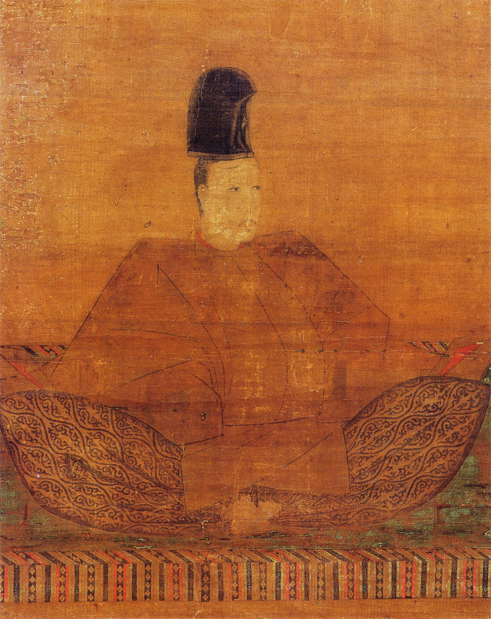 Portrait of the ex-Emperor Go-En'yū